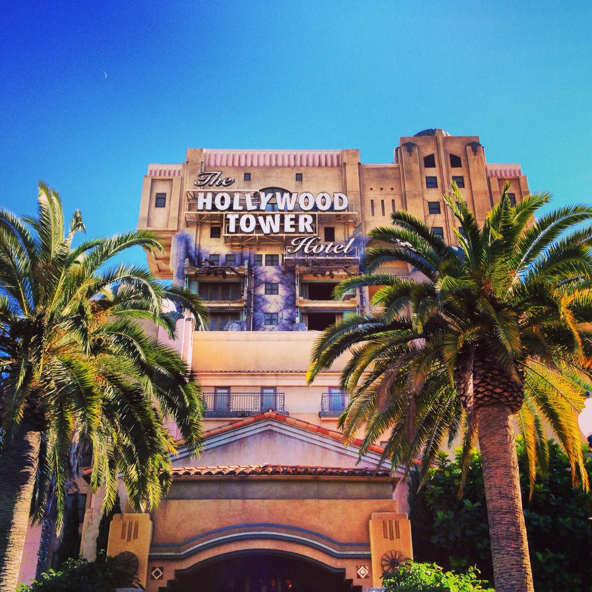 The Twilight Zone Tower of Terror at Disney California Adventure Park (January 2013)